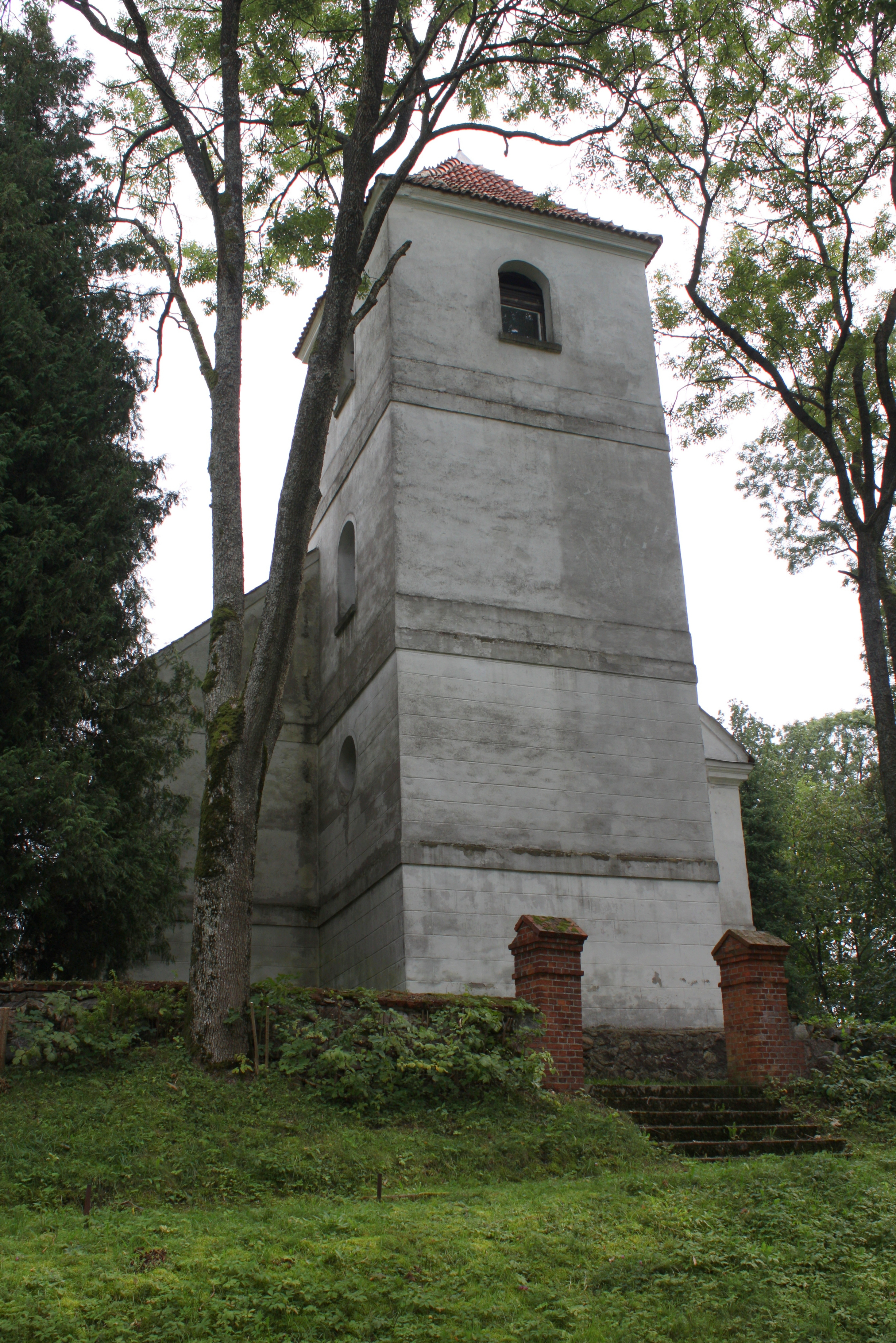 Evangelical church in Kobułty.